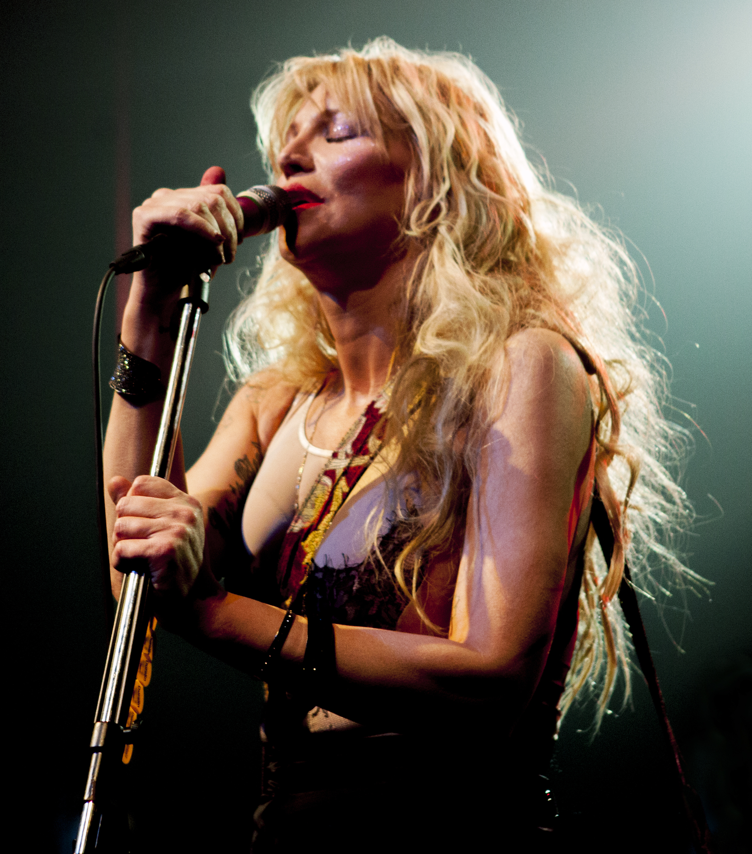 @ Majestic Ventura Theatre 5/19.